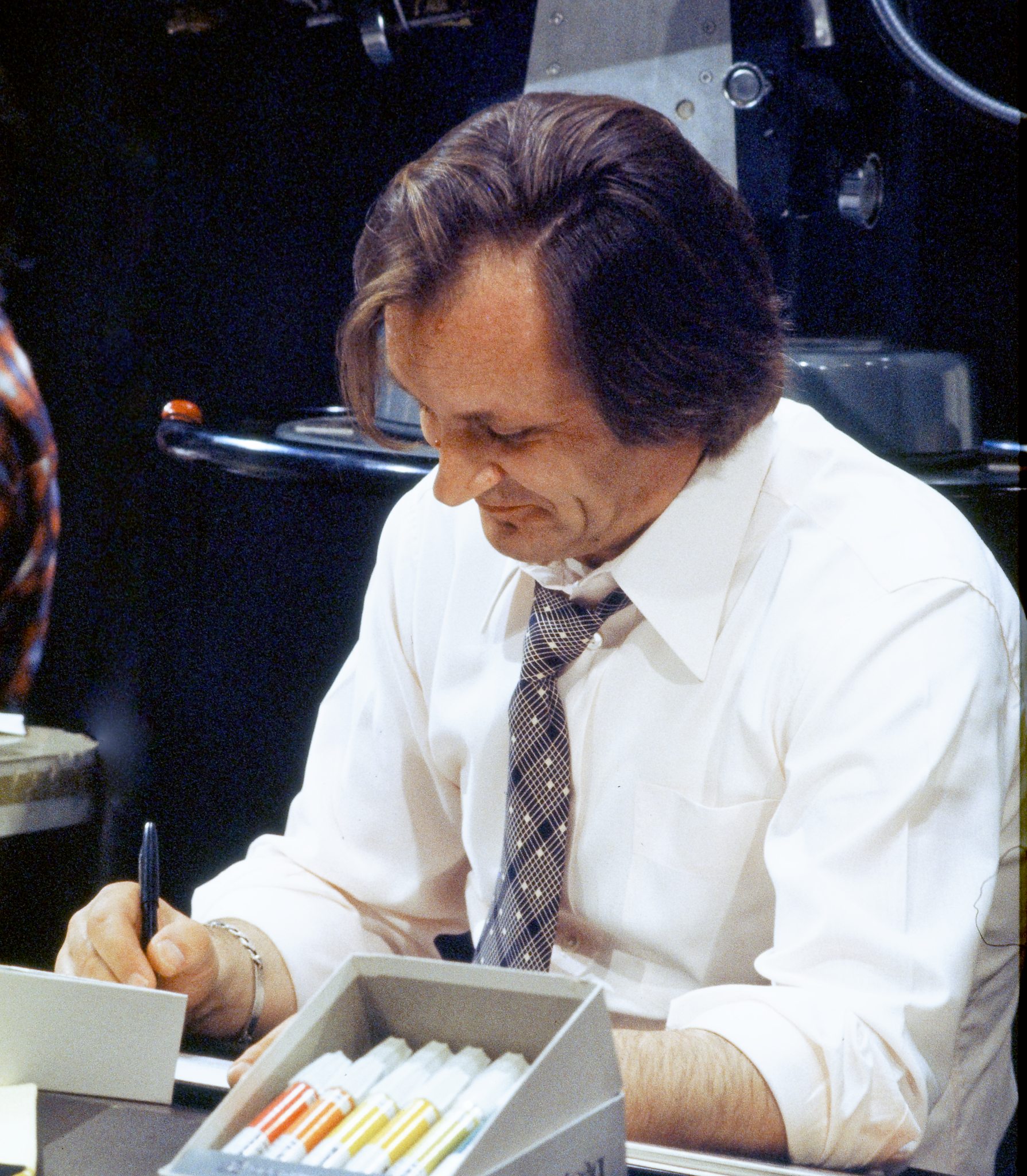 Albert Uderzo in 1973 in Montreal. Supplementary technical data: digitization of a 35mm slide. Original camera: Nikon F with 43-86mm Nikkor lens.